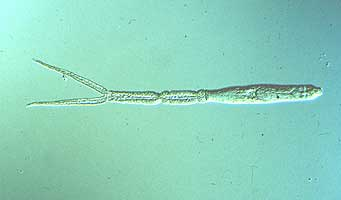 Cercaria of Austrobilharzia variglandis (Digenea: Schistosomatidae).